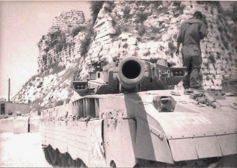 טנק ברחבת טנקים במוצב הבופור 1995 (התמונה צולמה על ידי עופר מרגלית)